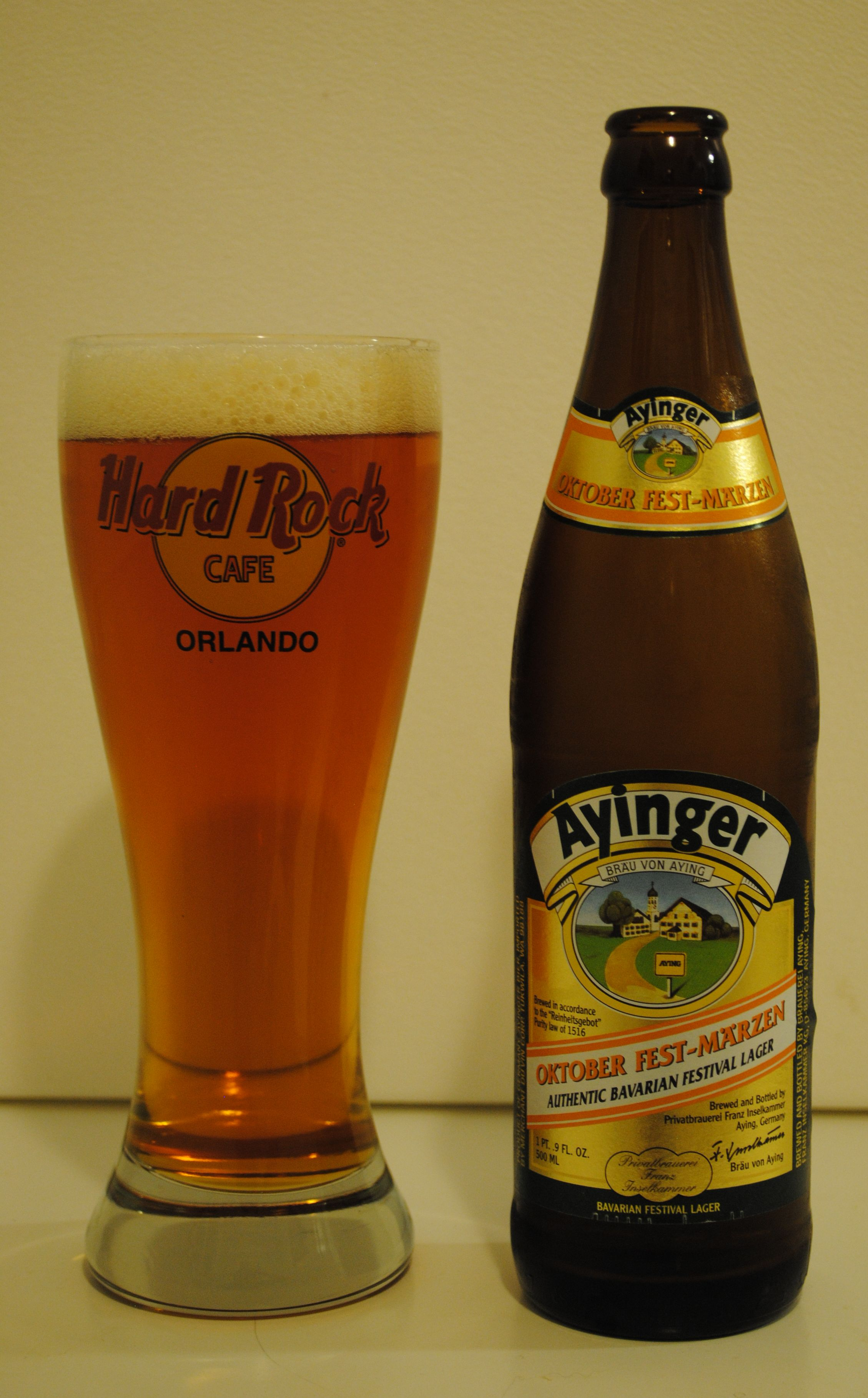 Ayinger brand Märzen style beer